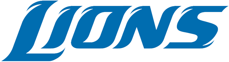 Detroit Lions wordmark used since 2009.